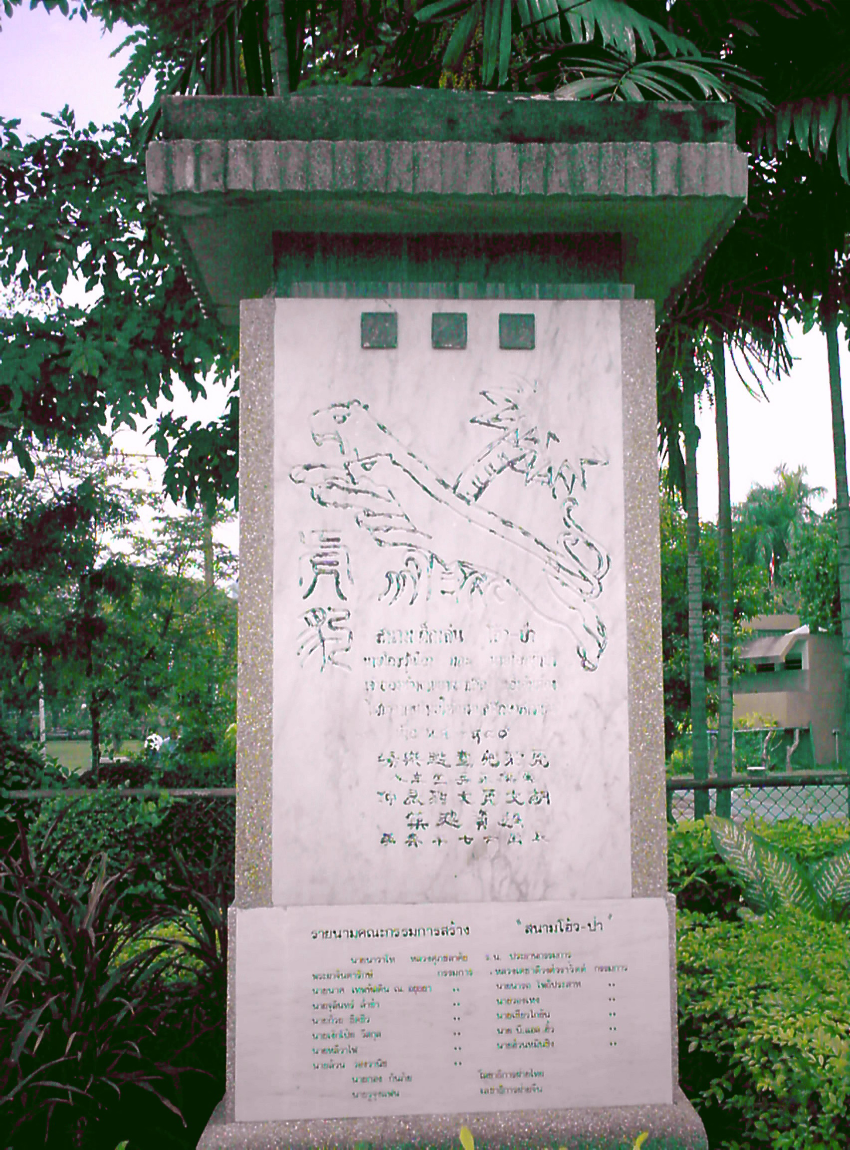 Monument, Haw Par Playground at Lumpini Park, Bangkok, Thailand. 中文（香港）: 泰國，曼谷，巴吞旺縣，是樂園，虎豹兒童遊樂場，紀念碑。